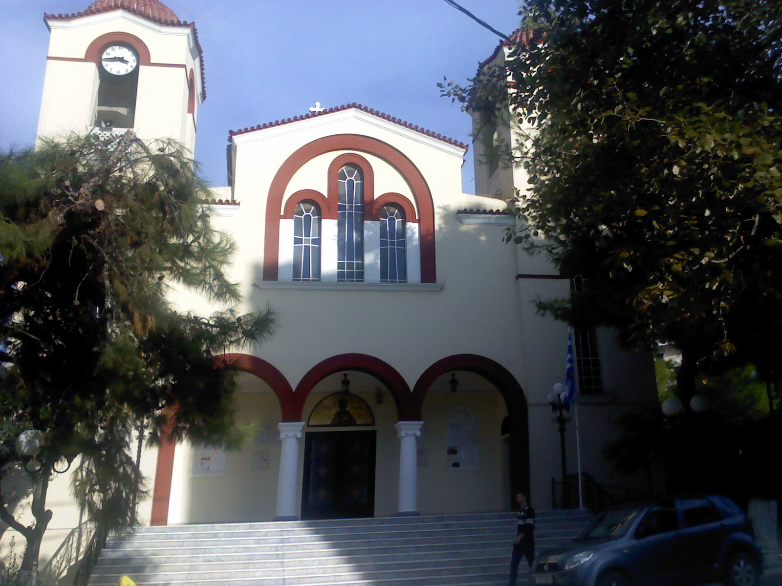 Churche Agios Stefanos Nea Ionia